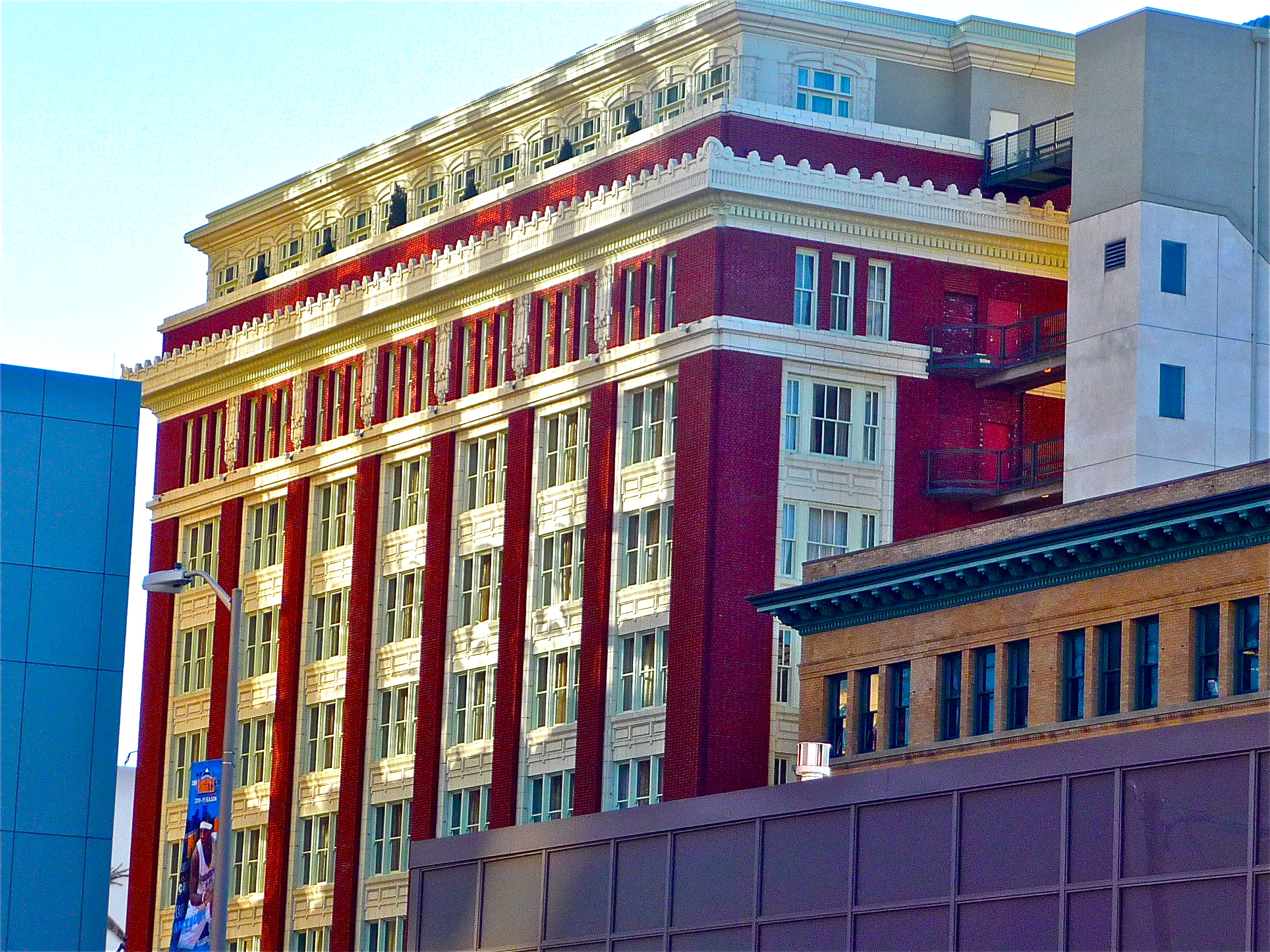 TRAMWAY BUILDING (Teatro Hotel) 1100 14th Street National Register 1/5/1978, 5DV.140 The 1911 red brick office building and attached streetcar barn served as the headquarters of the city’s public transportation system until its purchase by the City of Denver in 1971. The prolific architectural firm of William E. and Arthur A. Fisher designed the three-part vertical block type structure with its striking white terra cotta accents. The property is associated with the Historic Resources of Downtown Denver Multiple Property Submission. The Denver Tramway building was built in 1911 and held the city's public transportation system offices and attached street-car barn until 1971. The structure was designed by the firm of Fisher & Fisher and restored in the 1990s and is now home to the upscale Hotel Teatro. The operation of Denver’s streetcar system impacted the business district in the first half of the twentieth century. Denver architects William E. and Arthur Fisher designed the 1912 Denver City Tramway Company’s corporate headquarters at1100 14th Street. The Tramway Company, the major public transportation system of early twentieth century Denver, resulted from the consolidation of earlier street railway firms in 1899, and its route influenced the patterns of development of the city. The eight-story Renaissance Revival style red brick building with white terra-cotta trim had an attached three-story streetcar barn.